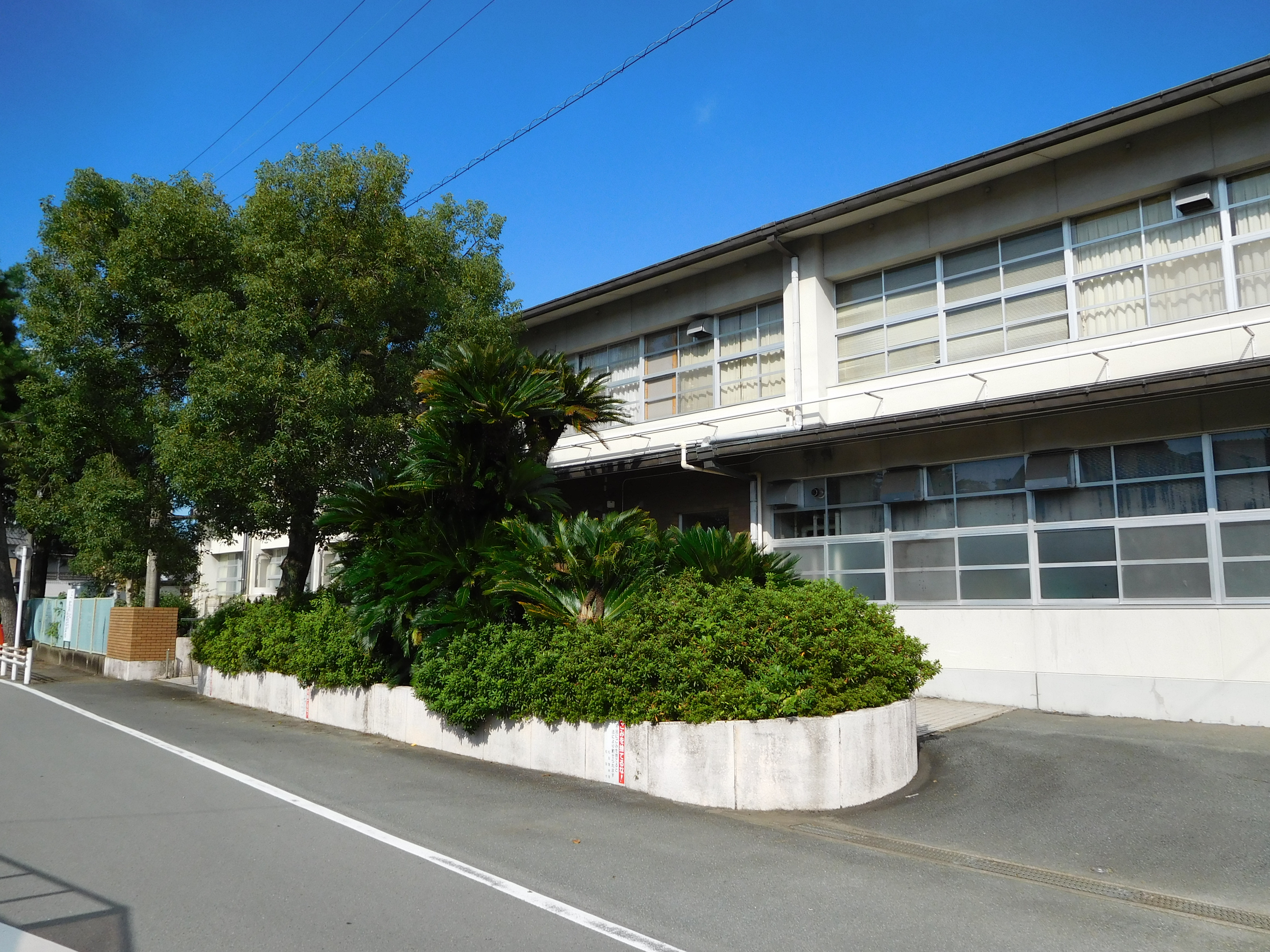 This is the Matsusaka city Daiichi elementary school in Mie, Japan.